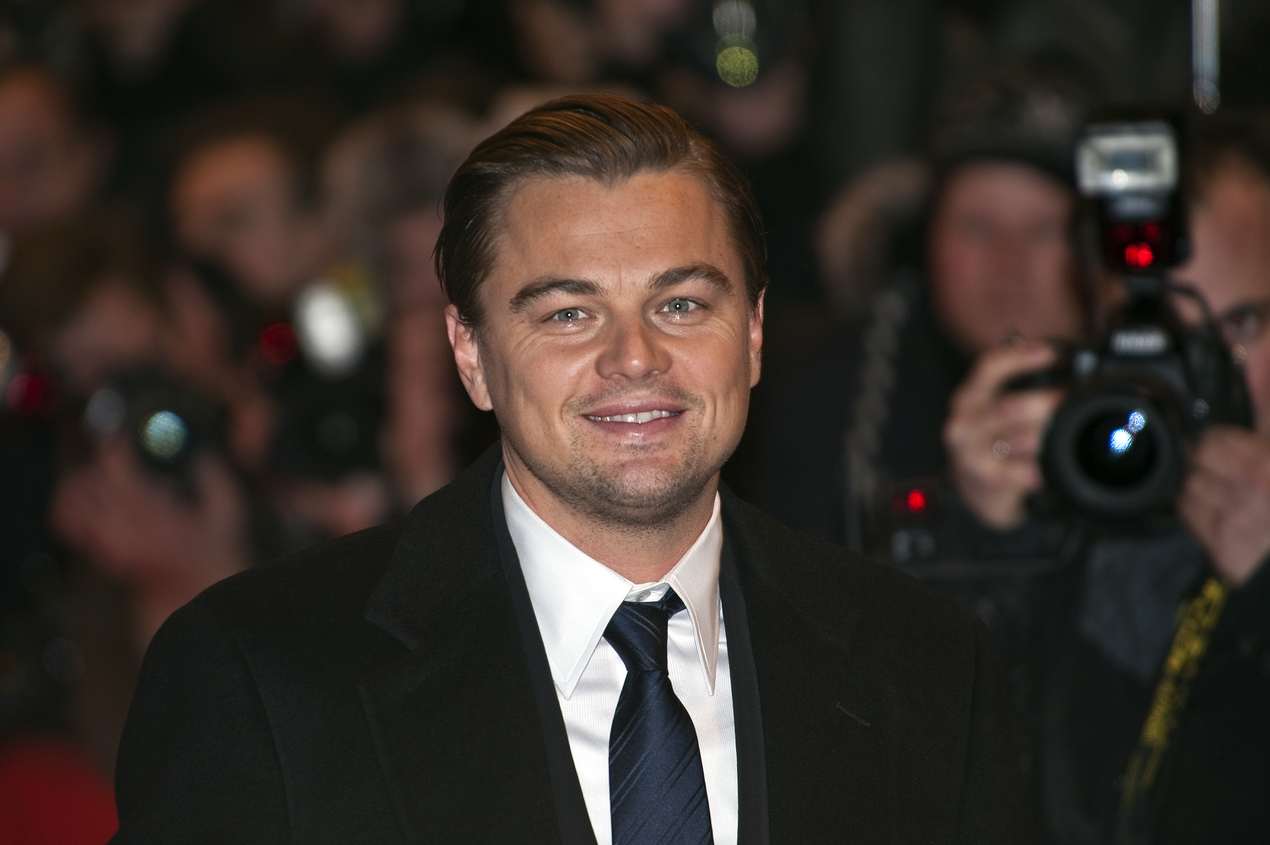 Leonardo DiCaprio at the premiere of the film "Shutter Island" at the 60th Berlin International Film Festival